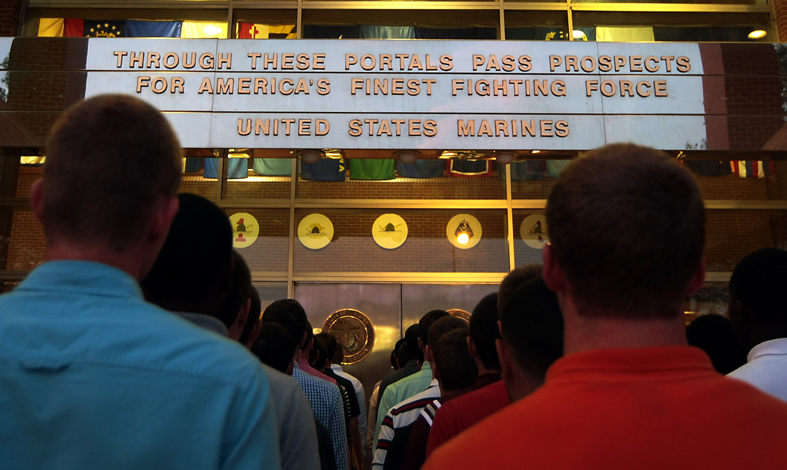 MCRD Parris Island entrance